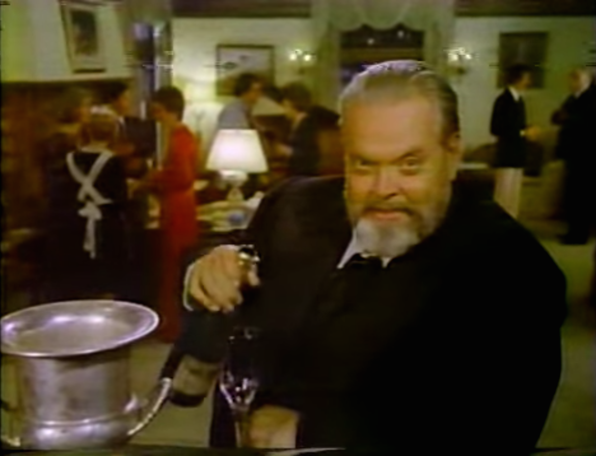 1970s wine advert